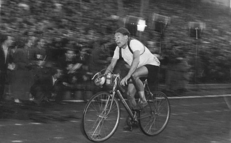 Vlastimil Ružička of Czechoslovakia winning the final stage of the 1951 Peace Race in the Polish Army Stadium, Warsaw.